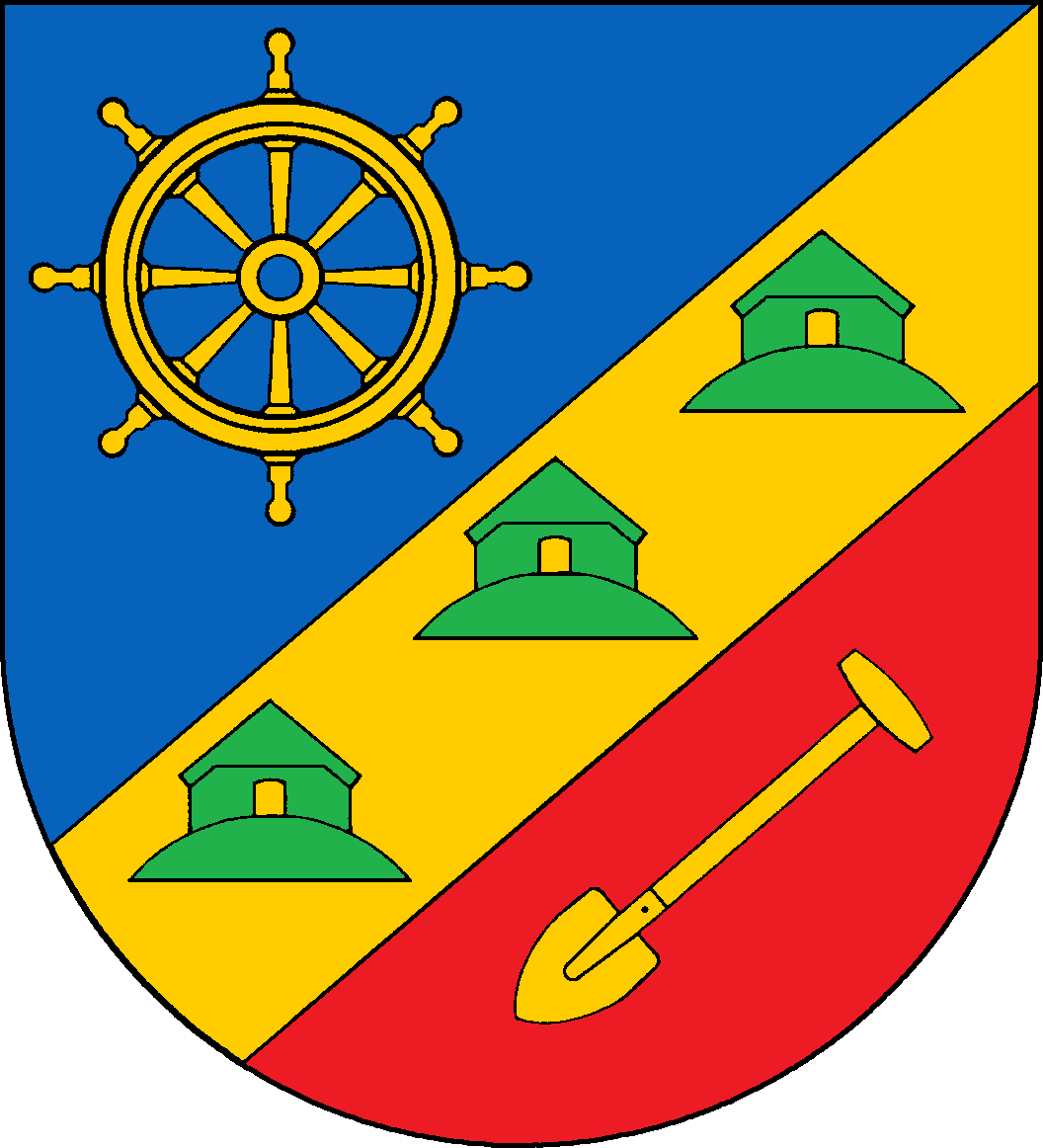 Coat of arms of the municipality Dagebüll in Schleswig-Holstein, Germany.